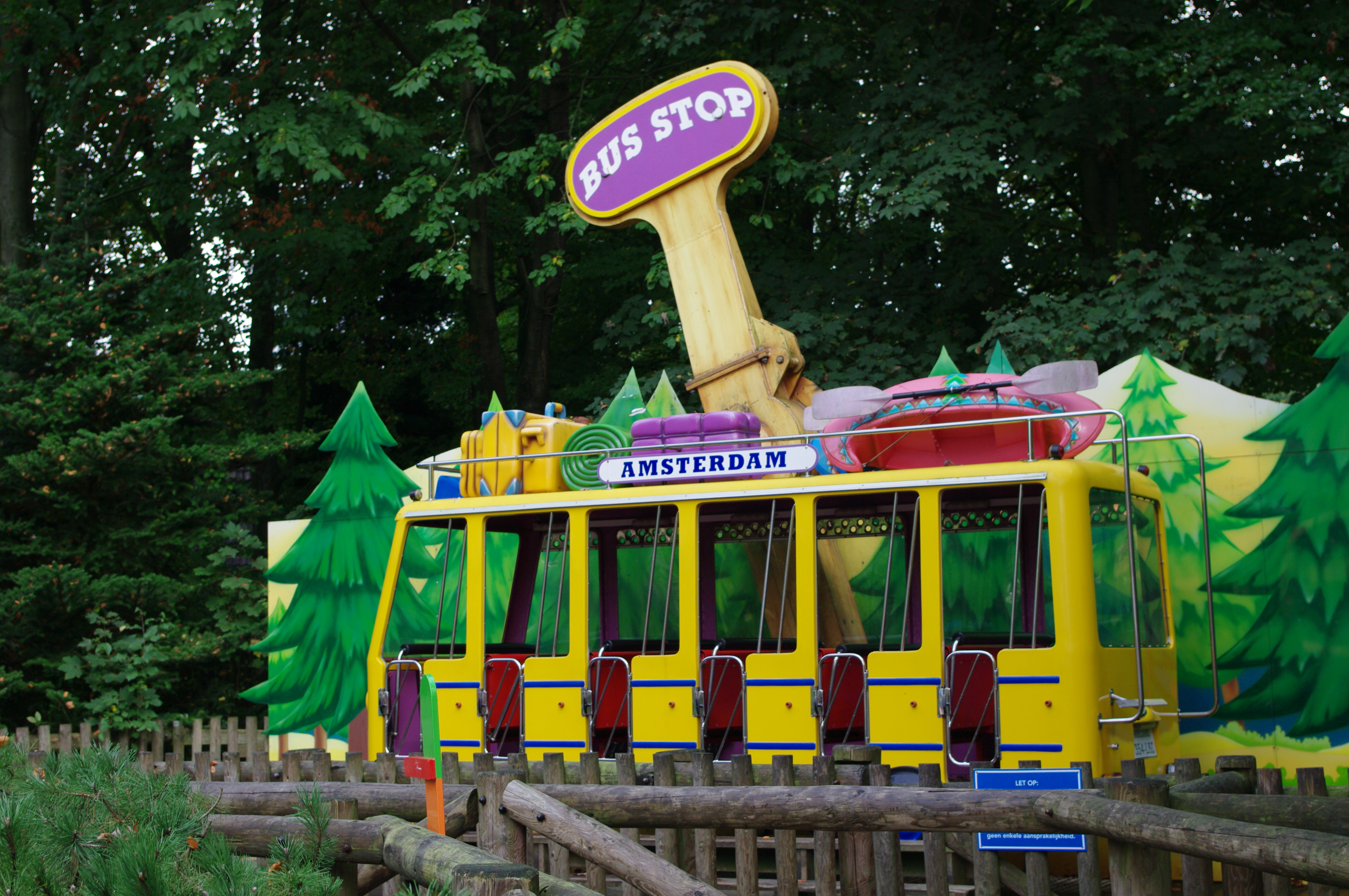 Lollige Lilly in the Dutch themepark Walibi World.